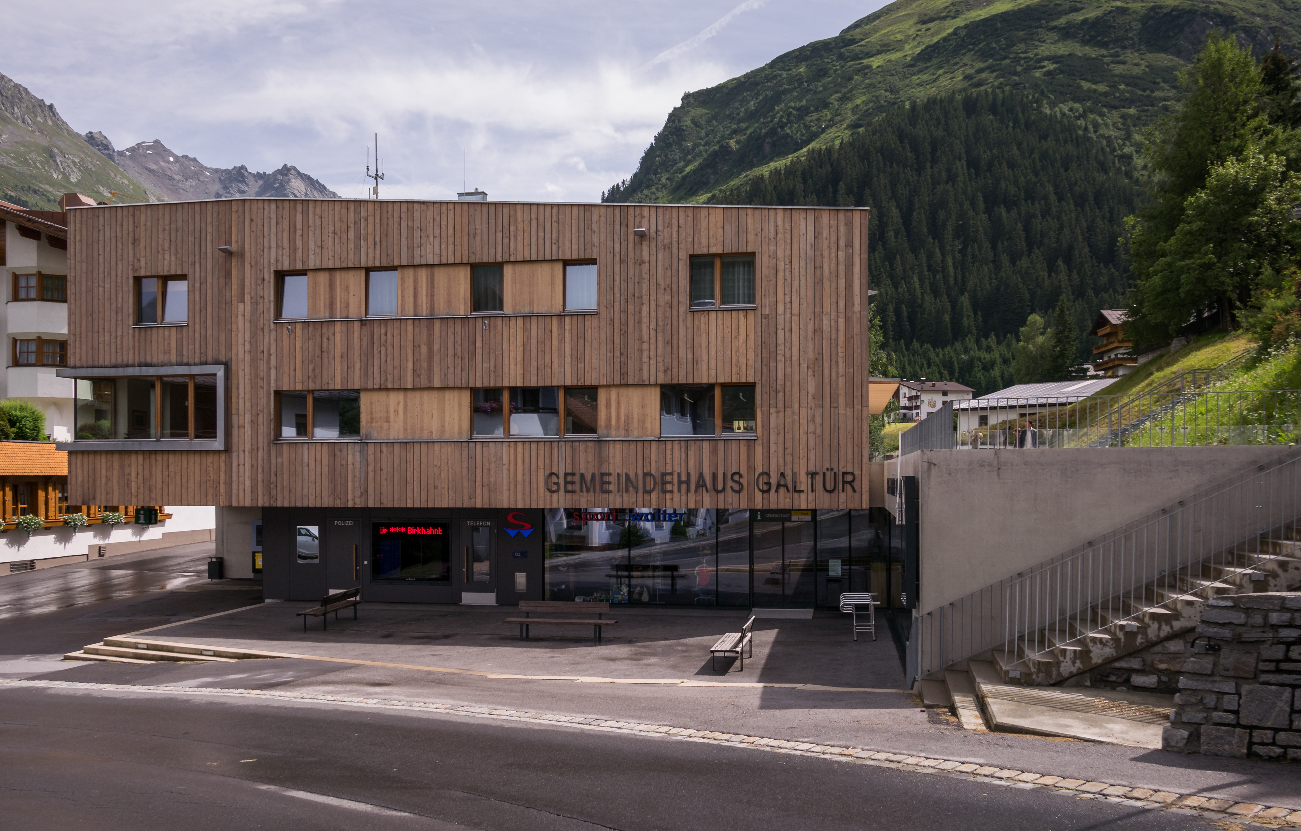 Village hall of Galtür. Paznaun, Tyrol, Austria